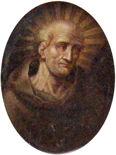 Carved stone with the remains of the poet and Franciscan Jacopone da Todi (who died in 1306); in the crypt of the church of San Fortunato; Todi, Umbria, Italy